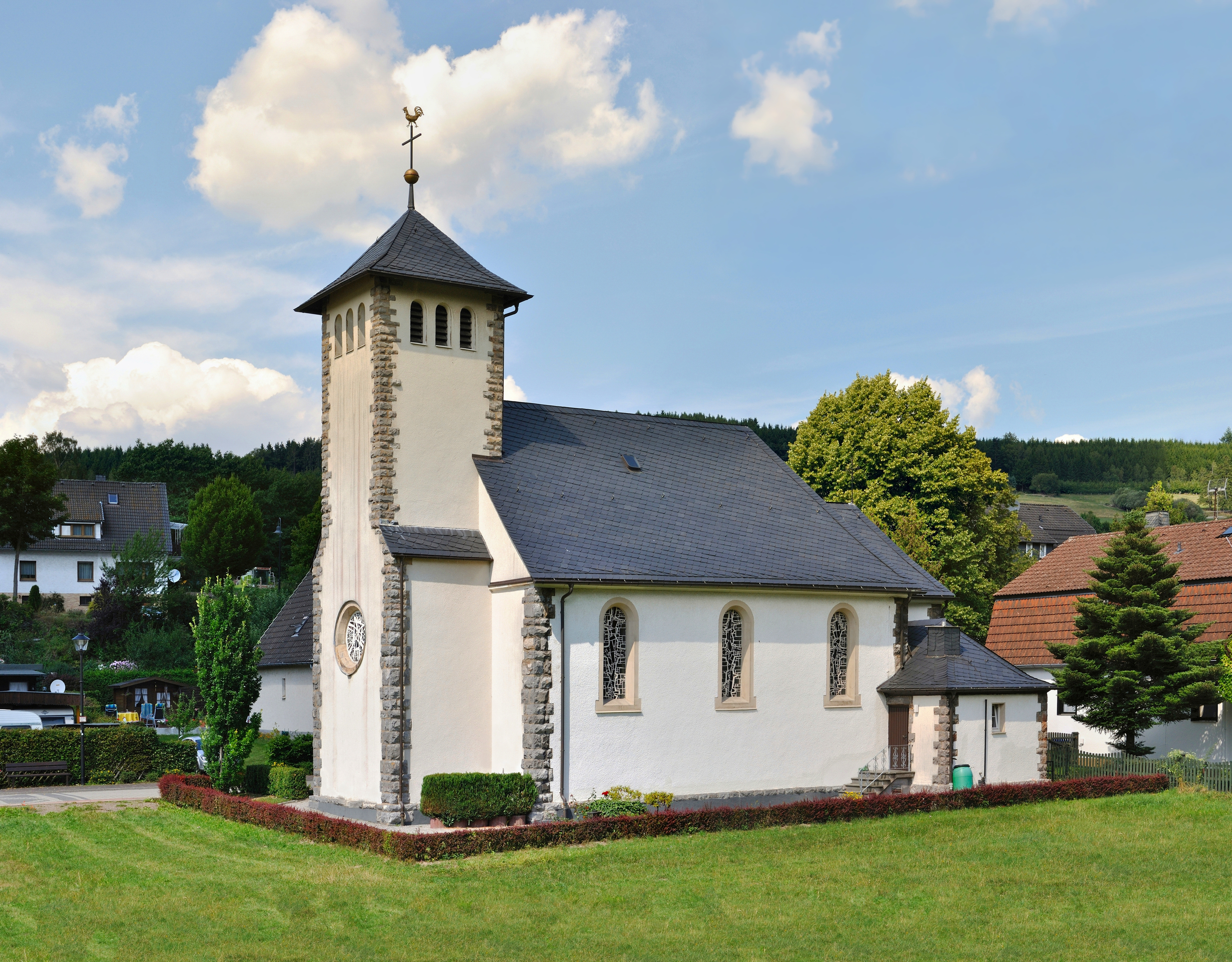 Stitching of the Catholic Church „St. Maria von der Immerwährenden Hilfe“ (German for ‚St. Mary of the perpetual help‘) in Helminghausen, Marsberg, North Rhine-Westphalia, Germany.